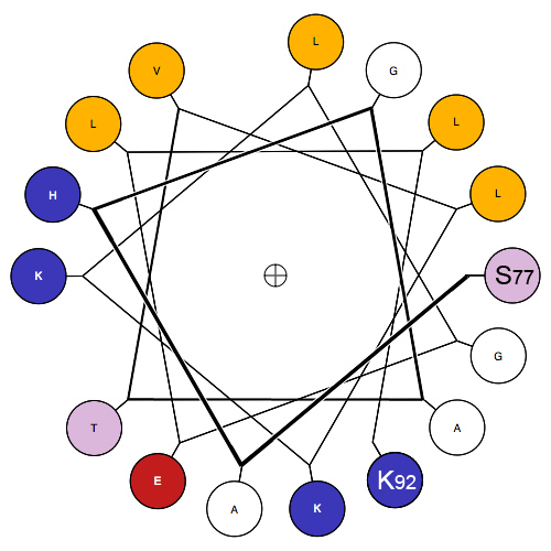 Helical wheel 2D representation of an alpha-helix from tuna myoglobin (residues 77-92, PDB file 2NRL). Hydrophobic residues are gold, hydrophilics light purple, and charges blue (+) or red (-). Modified from an image produced at [1].